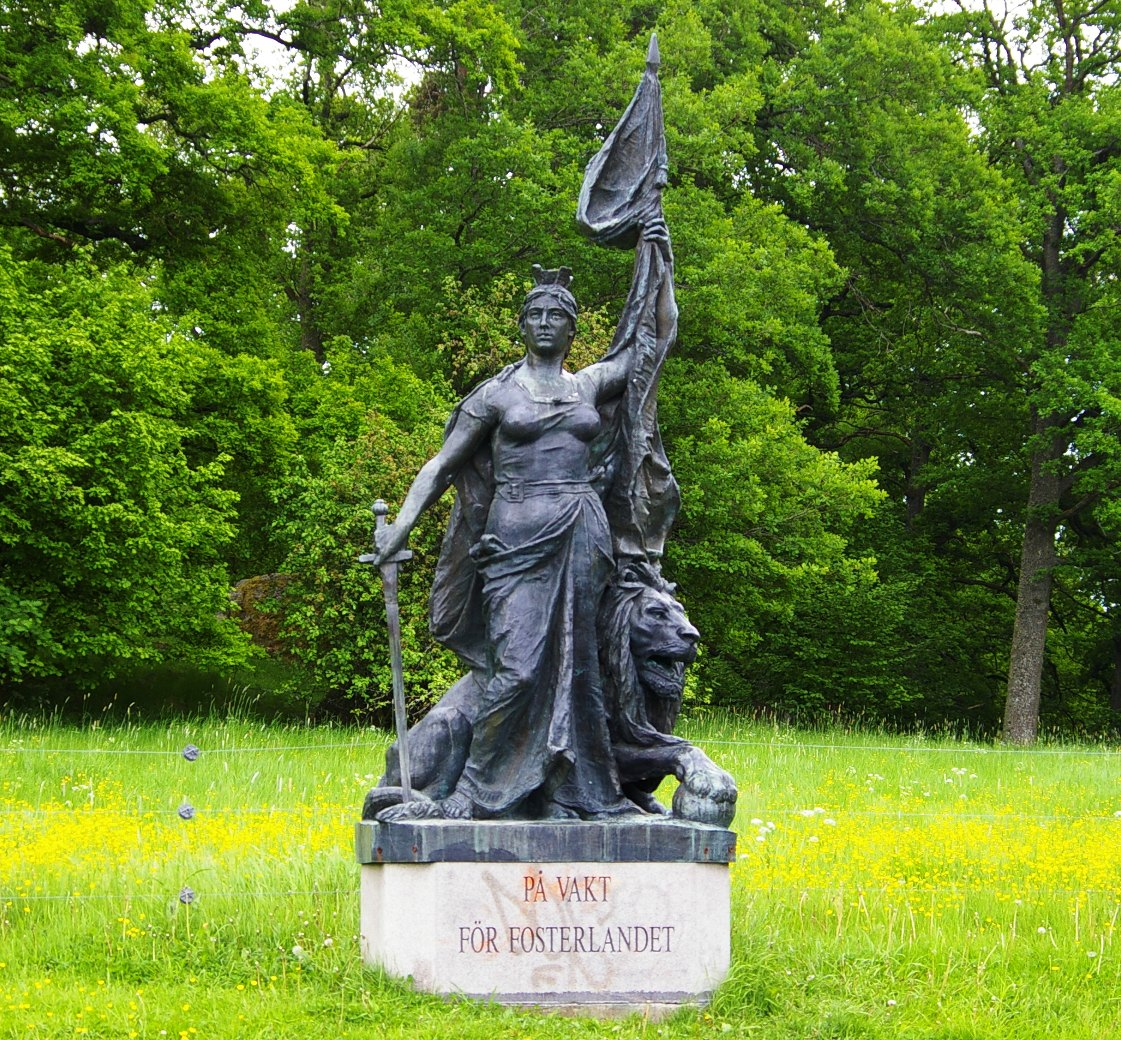 Moder Svea (1891), bronze statue by Alfred Nyström (1844–1897) in Berga memorial park in Linköping, Sweden. Inscription: On Guard for the Motherland.